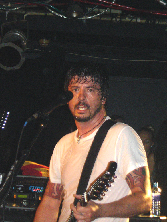 Dave Grohl at a concert in London 2006